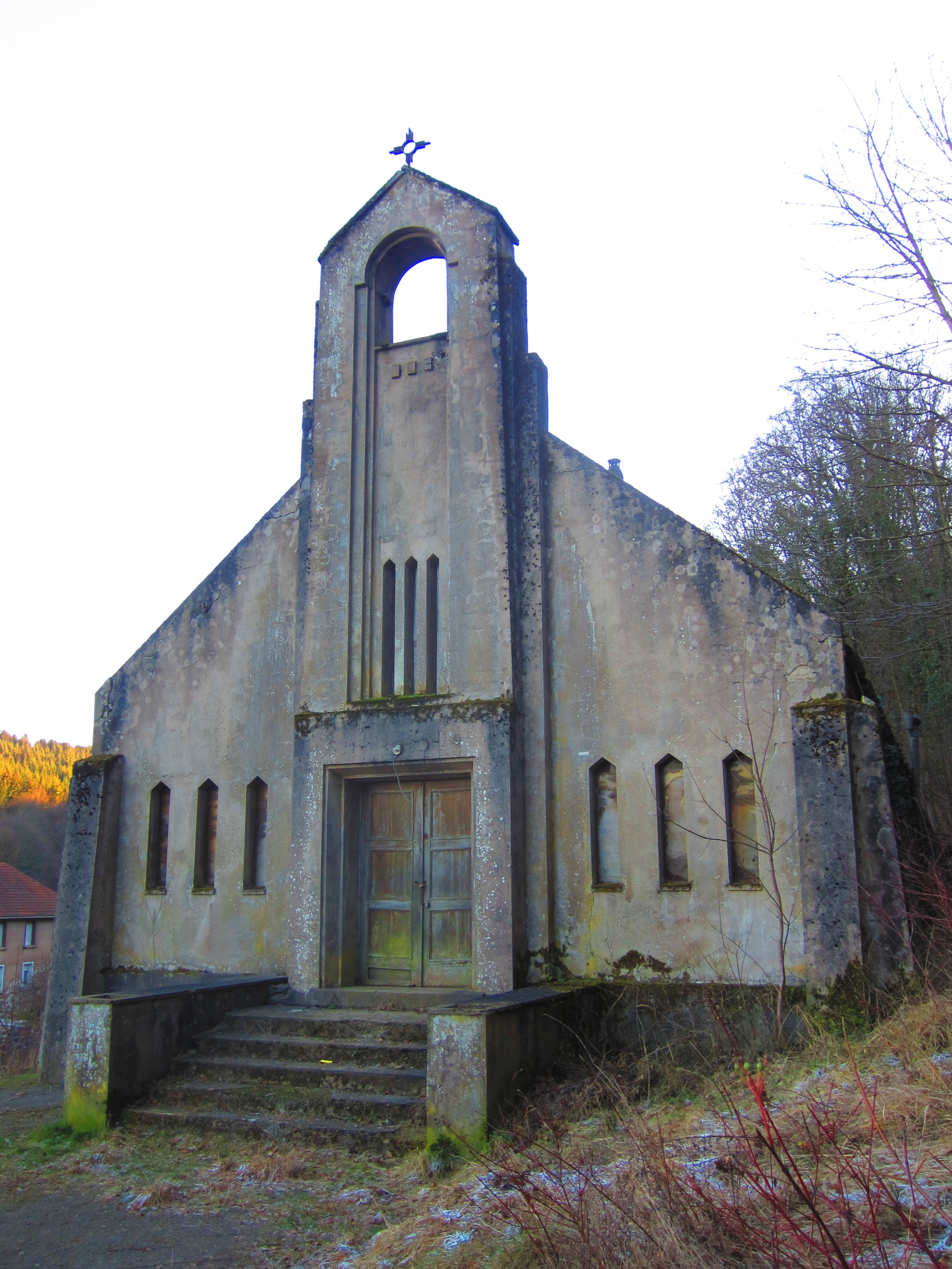 thil ste claire chapel